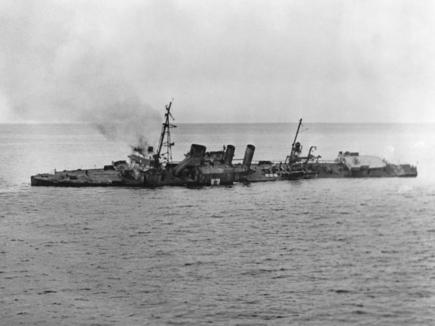 USS Stewart (DD-224) sinking after use as a target ship off San Francisco (USA), on 25 May 1946. Stewart had been scuttled at Surabaya, Java, on 2 March 1942. The ship was raised by the Japanese and repaired, renamed Patrol Boat No.102. It survived the war and was surrendered by Japan at Kure and returned to U.S. service as DD-224 on 29 October 1945.